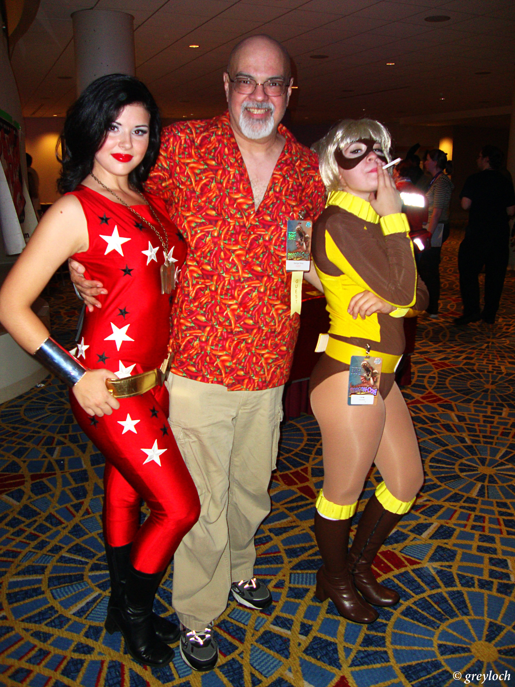 George Perez posing with two women cosplaying Wonder Girl (L) and Terra (R). Mr. Perez was the original New Teen Titans artist (circa 1982) and co-created "Terra" with Marv Wolfman. The man is a comics industry legend and just a really nice guy. At last year's D*C costume contest, his and Peter David's puppets (they had puppet versions of themselves emceeing the event) sneezed on my prop cat, Dex-Starr. *THAT* was the highlight of my con last year. :-) He has this ear-to-ear grin but I think I know why - and it's not for the obvious reason – these two ladies are his nieces! Obviously, the girls love their uncle and think highly of him and dressed up as DC characters he helped define. Way effin' cool... Dragon Con 2010.